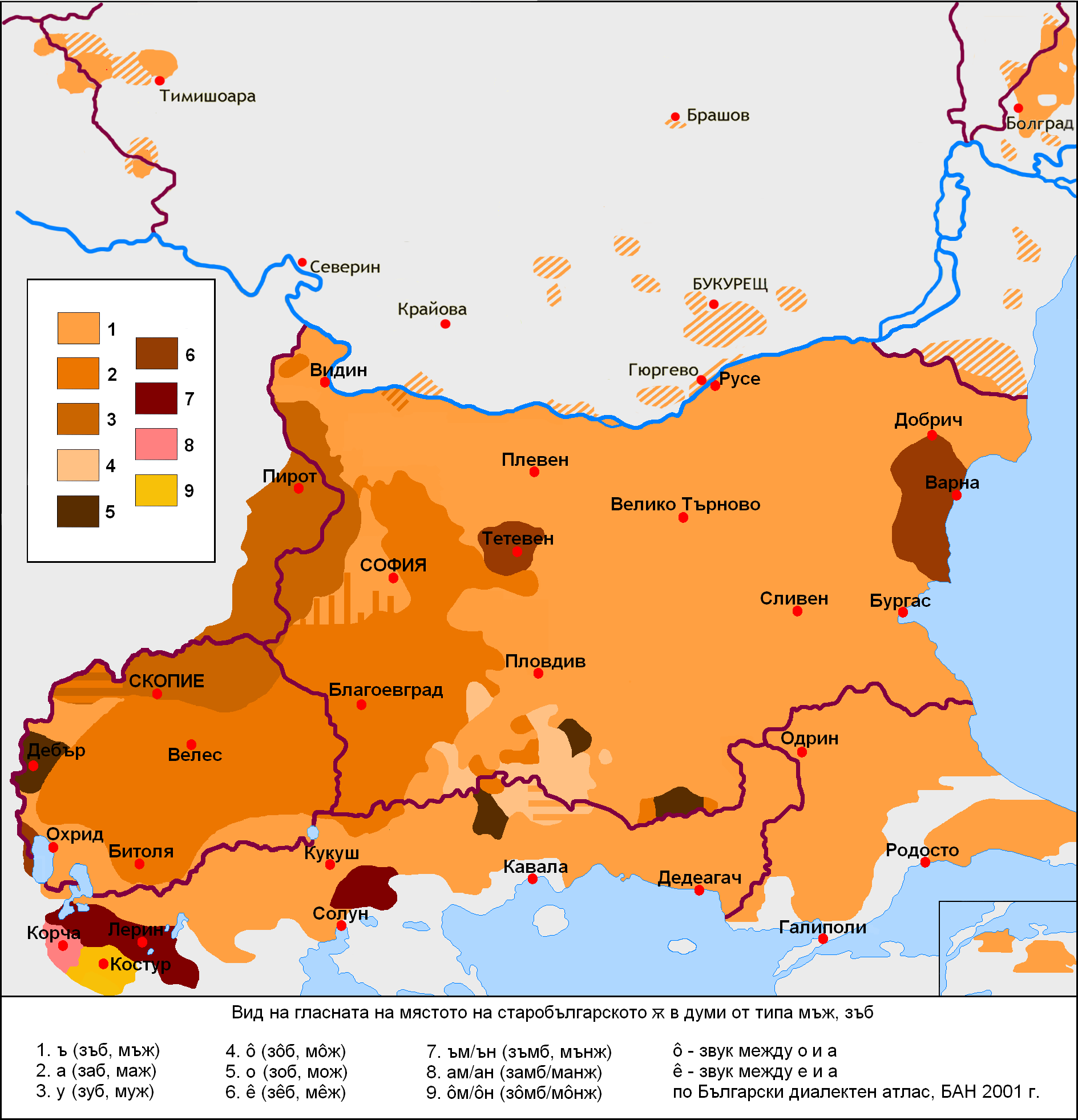 Bulgarian dialect map in early 20th. Century acc. to Bulgarian Dialectological Atlas. Bulgarian Academy of Sciences, 2001, ISBN: 954-90344-1-0 Source: from :bg:Файл:Bulgarian dialect map-yus.png, graphics created by :bg:User:Пакко (Plamen Tsvetkov), released on Bulgarian Wikipedia under GFDL